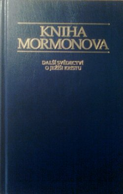 The picture of Czech version of the Book of Mormon published by The Church of Jesus Christ of Latter-day Saints.